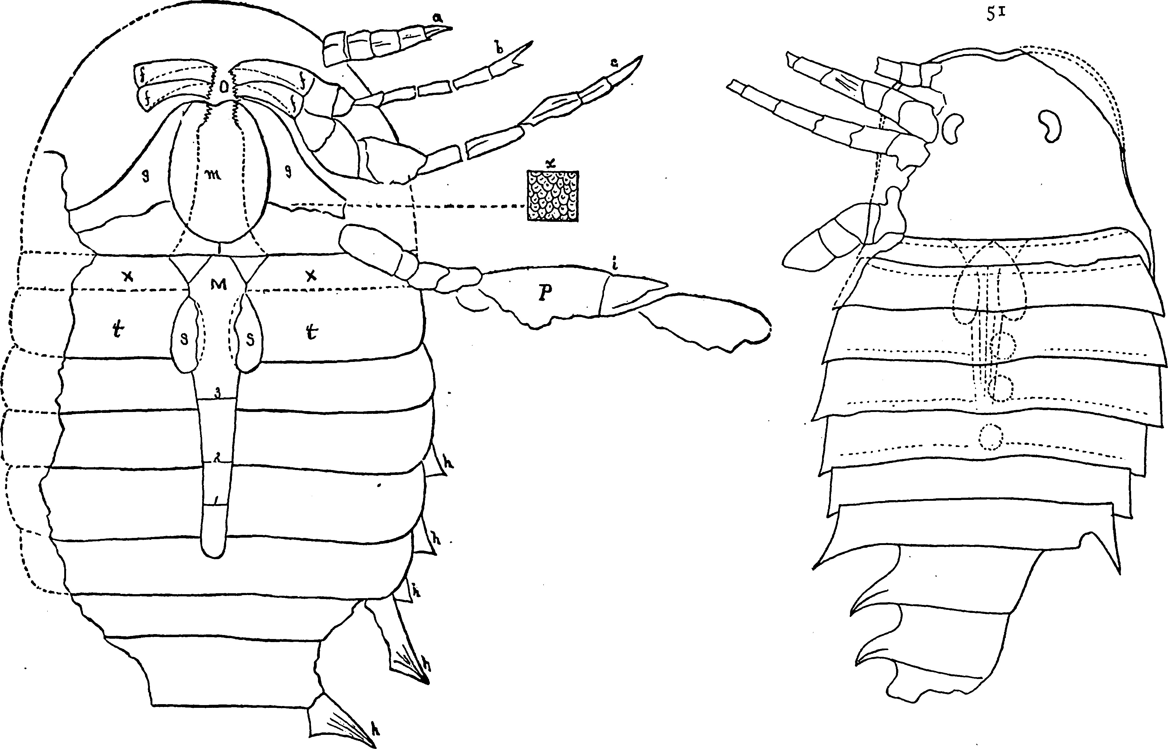 Title: The Eurypterida of New York Year: 1912 (1910s) Authors: Clarke, John Mason, 1857-1925; Ruedemann, Rudolf, 1864-1956 Subjects: Eurypterida; Paleontology Publisher: Albany, New York State Education Department Text Appearing Before Image: 224 NEW YORK STATE MUSEUM front of the head shield to that segment and then decreasing as gradually to the second postabdominal segment where a contraction to half the. width takes place. The carapace appears to have been subrectangular, rather short and broad; length to width in the approximate proportion of 3 15. The lateral 50 Text Appearing After Image: Figures 50, 51 Eurypterus (Anthraconectes) mazonensis Meek & Worthen. Figure 50, copy of original figure; figure 51, outline sketch of counterpart of original, slightly reduced (see pi. 26, Rg. i) margins are sUghtly convergent, at least in the middle portion where they can be traced. The antelateral angles are somewhat abruptly rounded, the frontal margin transverse, slightly emarginate in the middle. At the postlateral angles the carapace is a little more broadened. The posterior margin is overlapped by the first tergite and not exposed. The eyes are seen as rather small and slight kidney-shaped depressions; the right eye